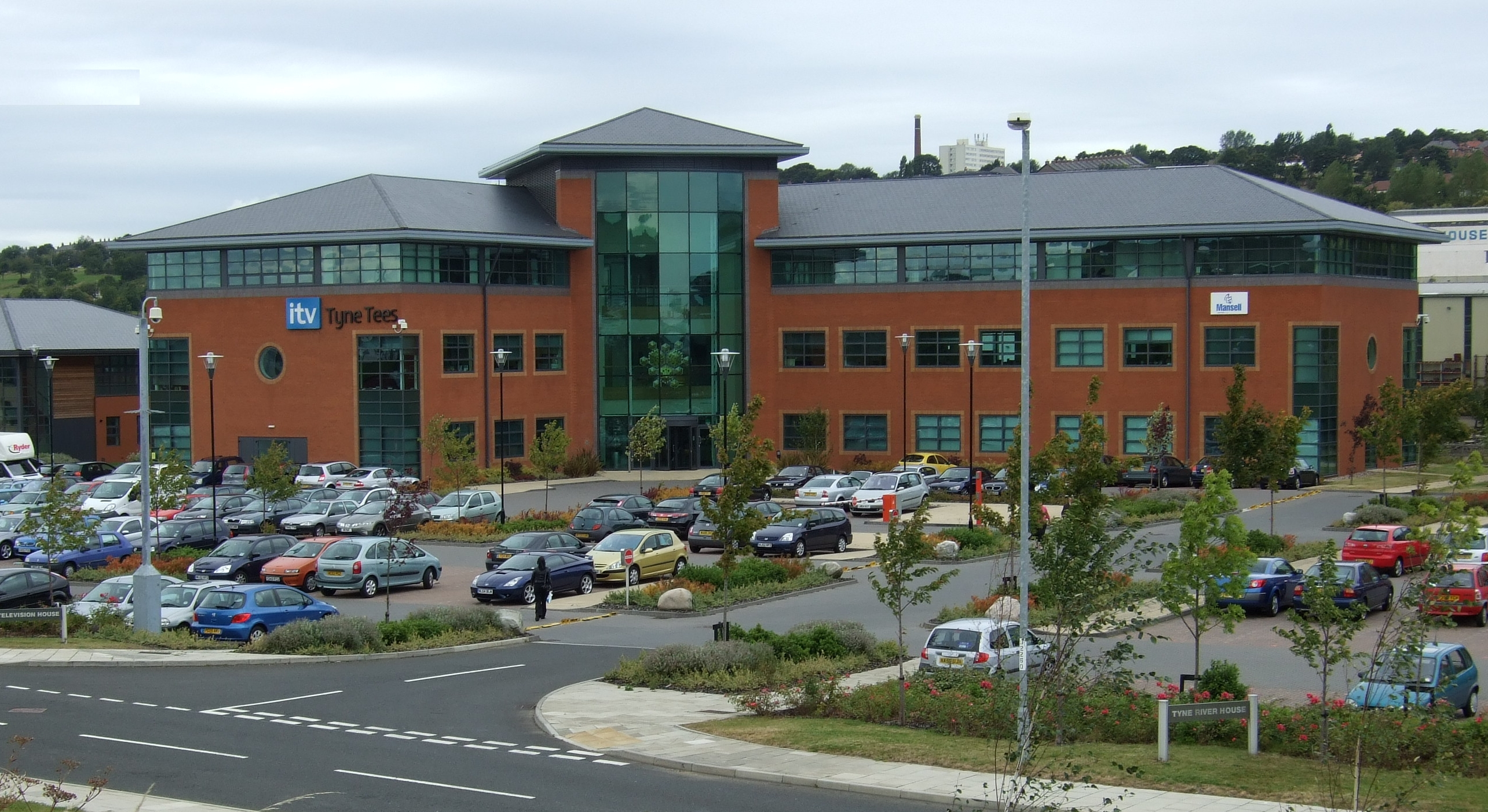 "Television House" in Gateshead, Tyne Tees Television's office and studio complex since July 2005. ITV Tyne Tees has been based on the south bank of the River Tyne, just south of the mouth of the River Derwent, since July 2005.